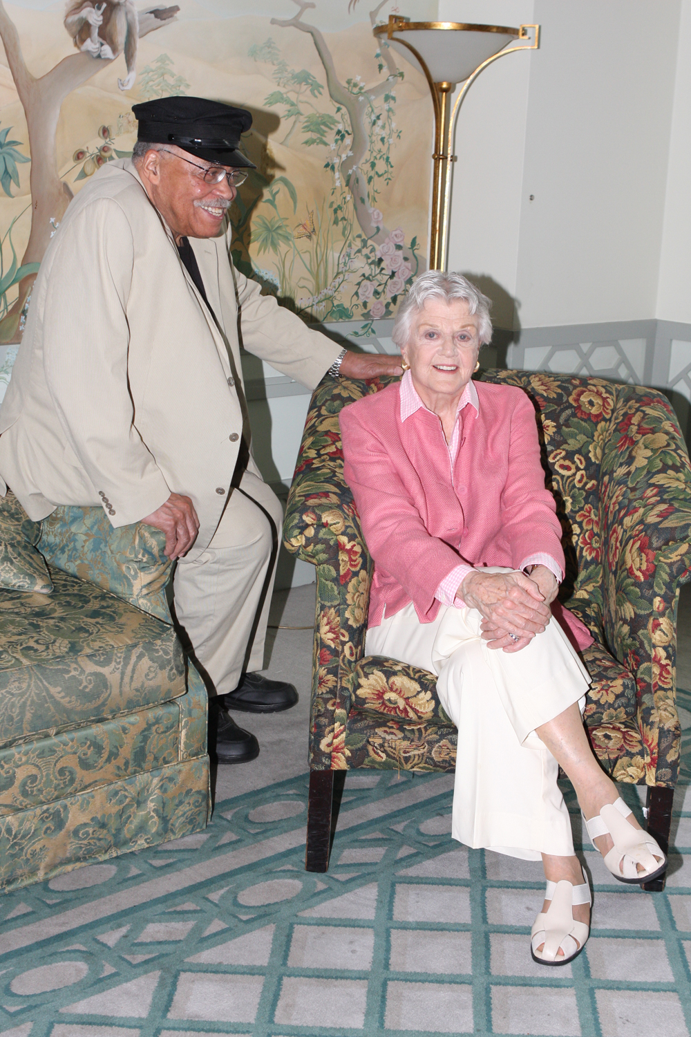 In Sydney today rehearsing for the Australian tour of the stage production ‘Driving Miss Daisy', are actors Angela Lansbury, James Earl Jones and Boyd Gaines.